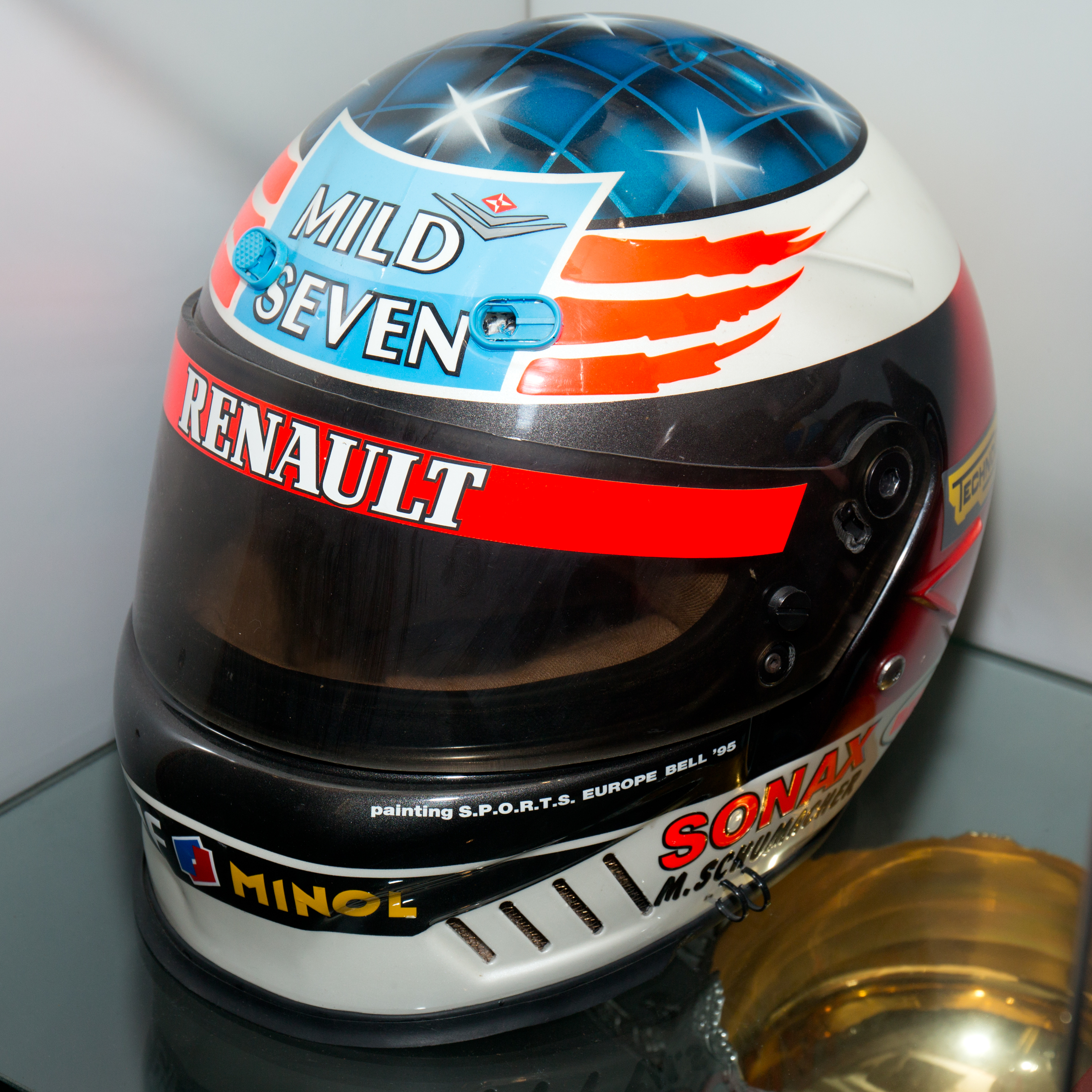 Helmet of Michael Schumacher in 1995